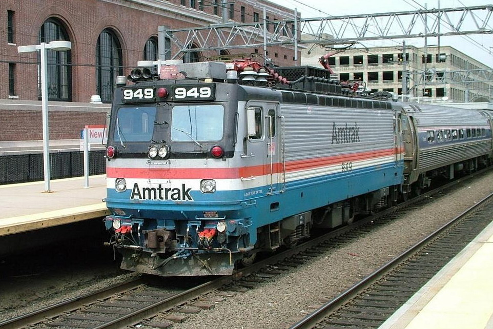 AEM-7 at New Haven Union Station in 2004